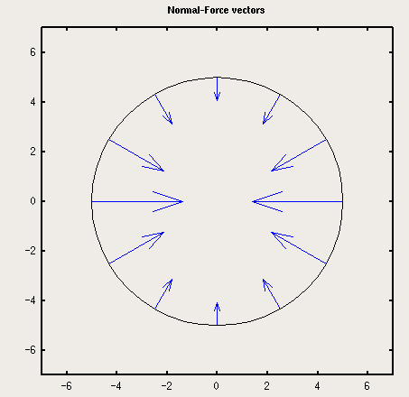 Diagram illustrating how Darrieus wind turbine or Gorlov helical turbine works - drawn by the author to go with article